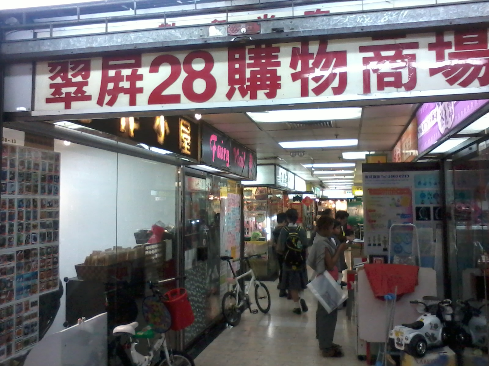 大埔 翠屏花園, Jade Plaza, Tai Po, Hong Kong